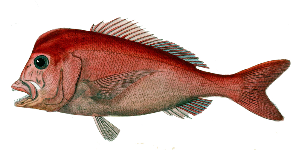 Chrysoblephus gibbiceps